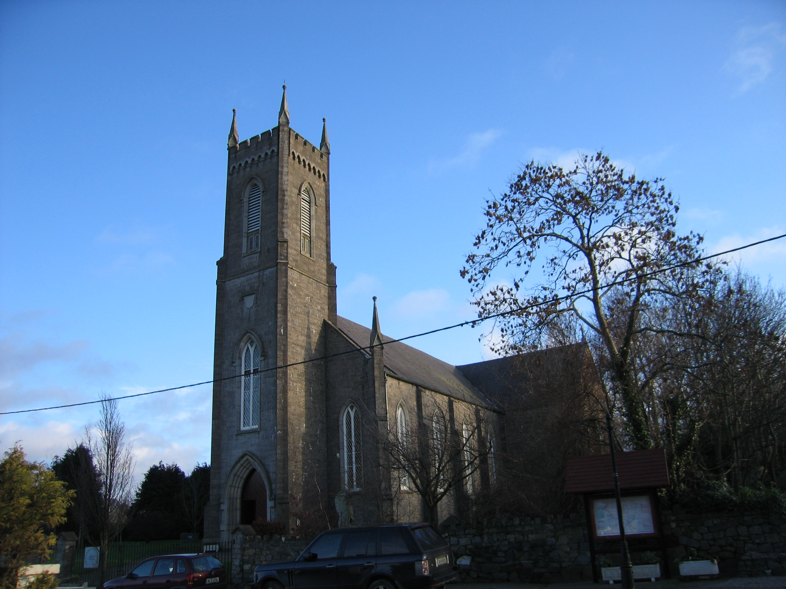 Saggart Church, Saggart, Dublin (Sarah777 19:07, 7 January 2007 (UTC))